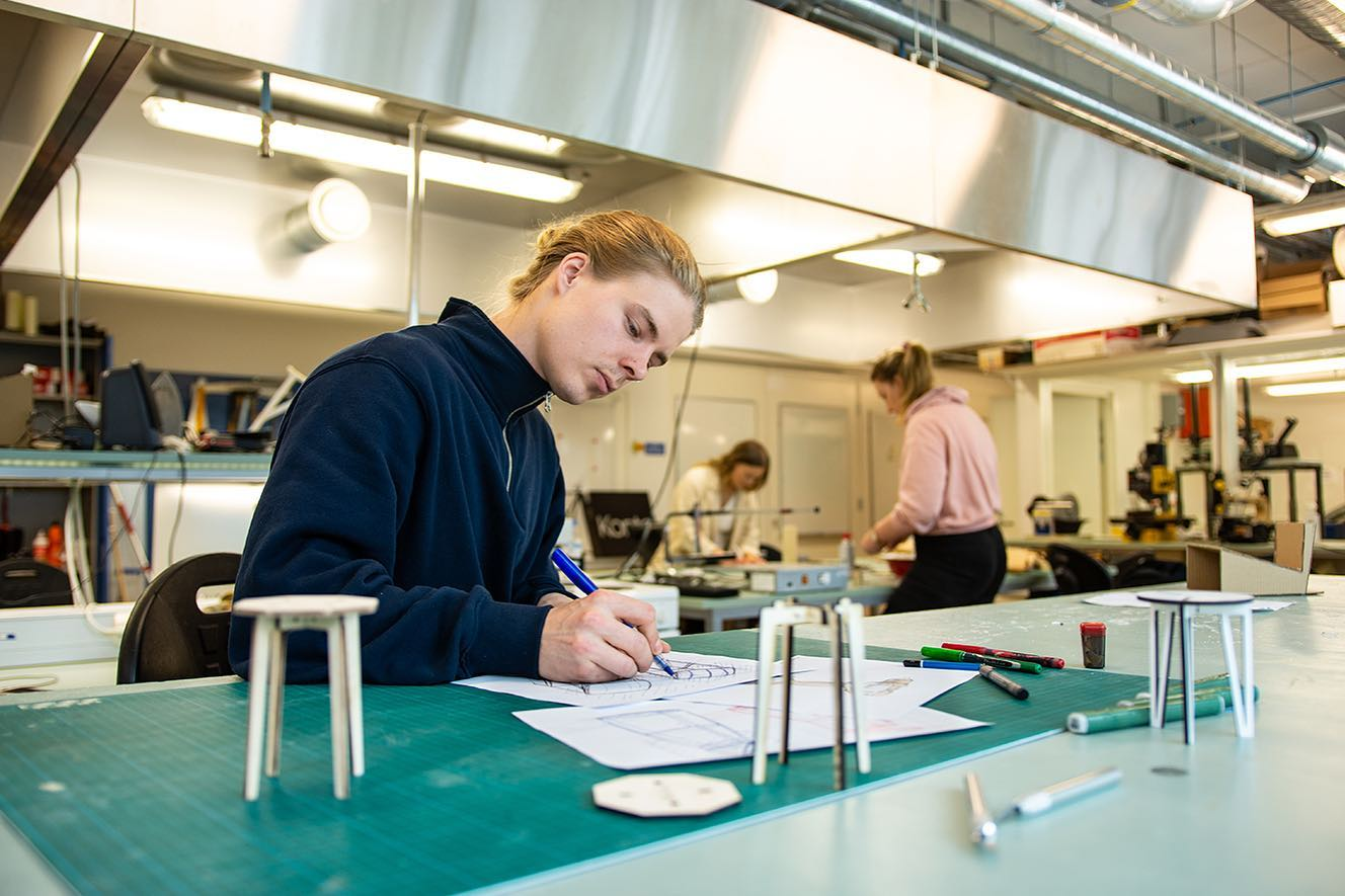 Teollinen muotoilu